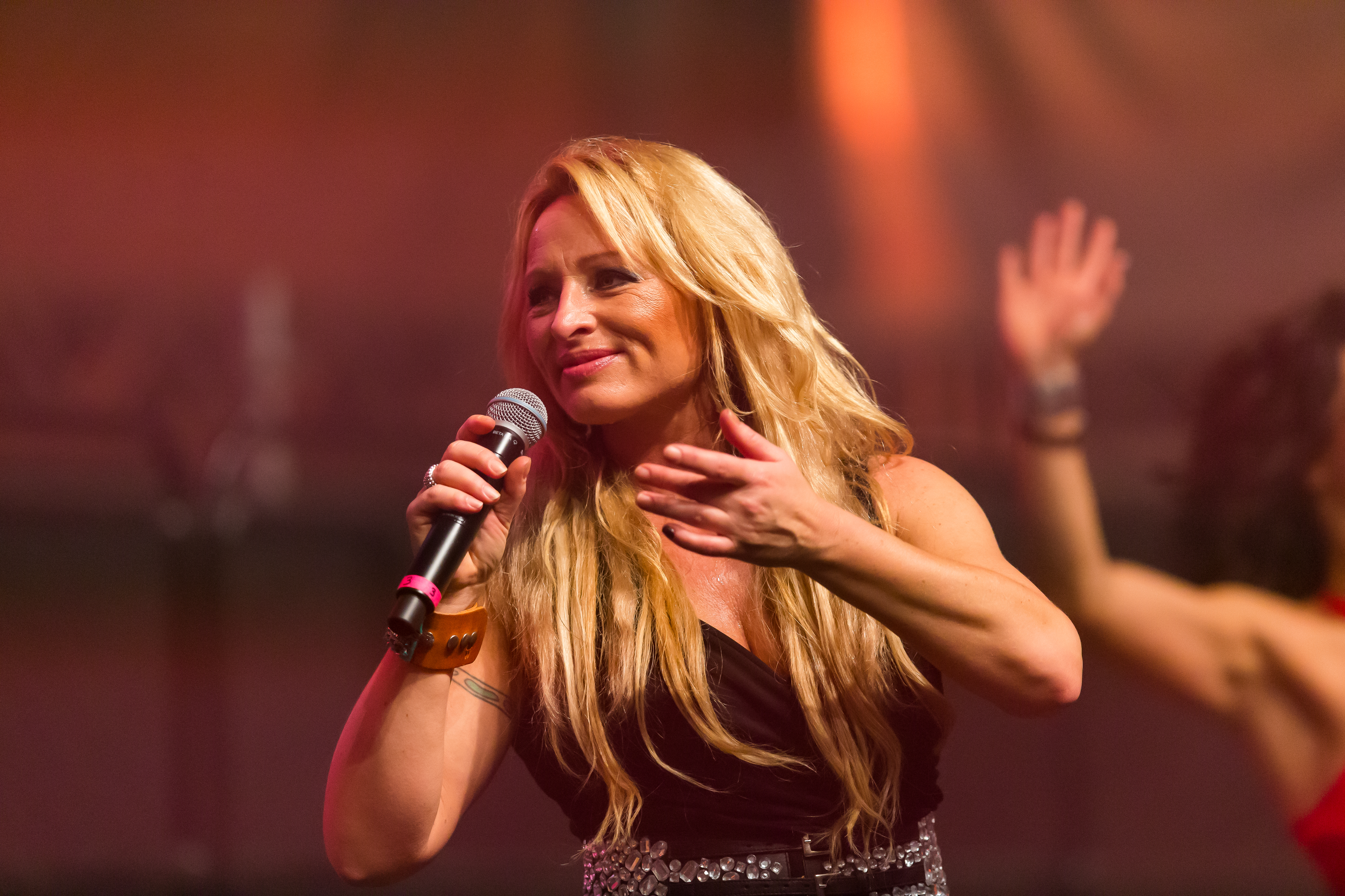 2 Brothers on the 4th Floor during Sunshine Live - 90er Live on Stage at Maimarkt Halle, Mannheim, Baden Württemberg, Germany on 2016-11-27, Photo: Sven Mandel DJ Falk, E-Rotic, Twenty 4 Seven, Rednex, Vengaboys, Masterbox feat. Beatrix Delgado, 2 Brother on the 4th Floor, 2 Unlimited, Interactive, Charly Lownoise, Marusha